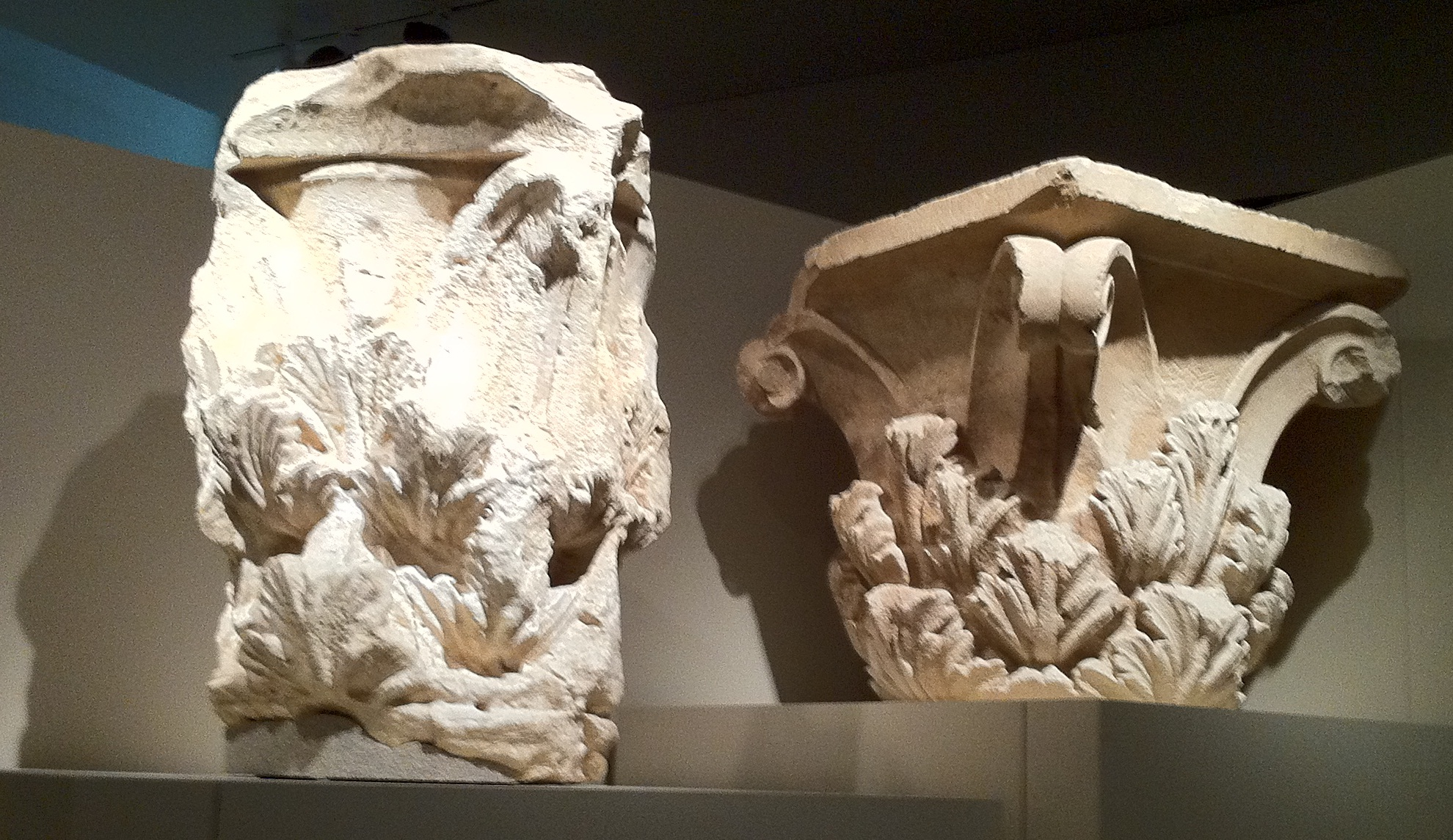 Corinthian capitals, Aï Khanum, Before 145 B.C., Limestone, National Museum of Afghanistan, Personal photograph 2011, British Museum.